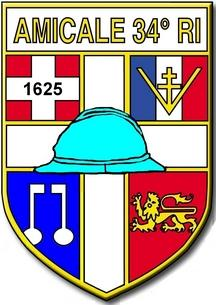 Badge of the friendly 34th Infantry Regiment (France).